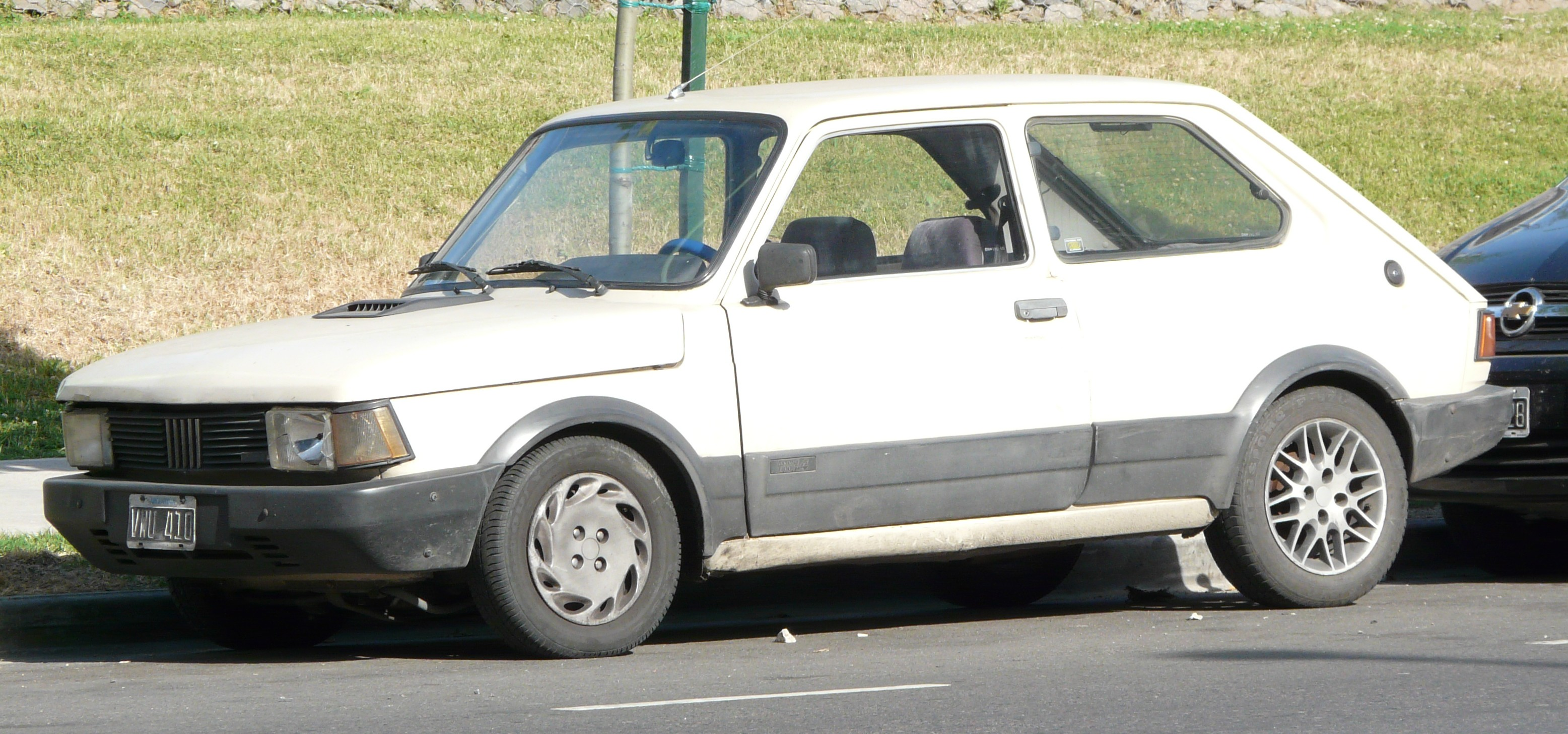 Argentine Fiat Spazio (147), Buenos Aires, Argentina, November 2008.